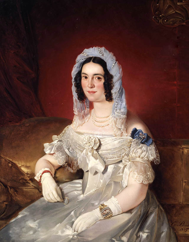 Portrait of Maria Alekseevny Olsufyeva (1799-1878)